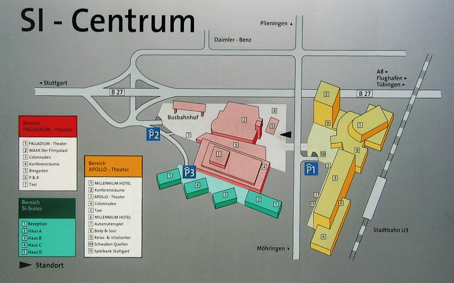 Stuttgart, Germany: SI-Centrum, Information Table